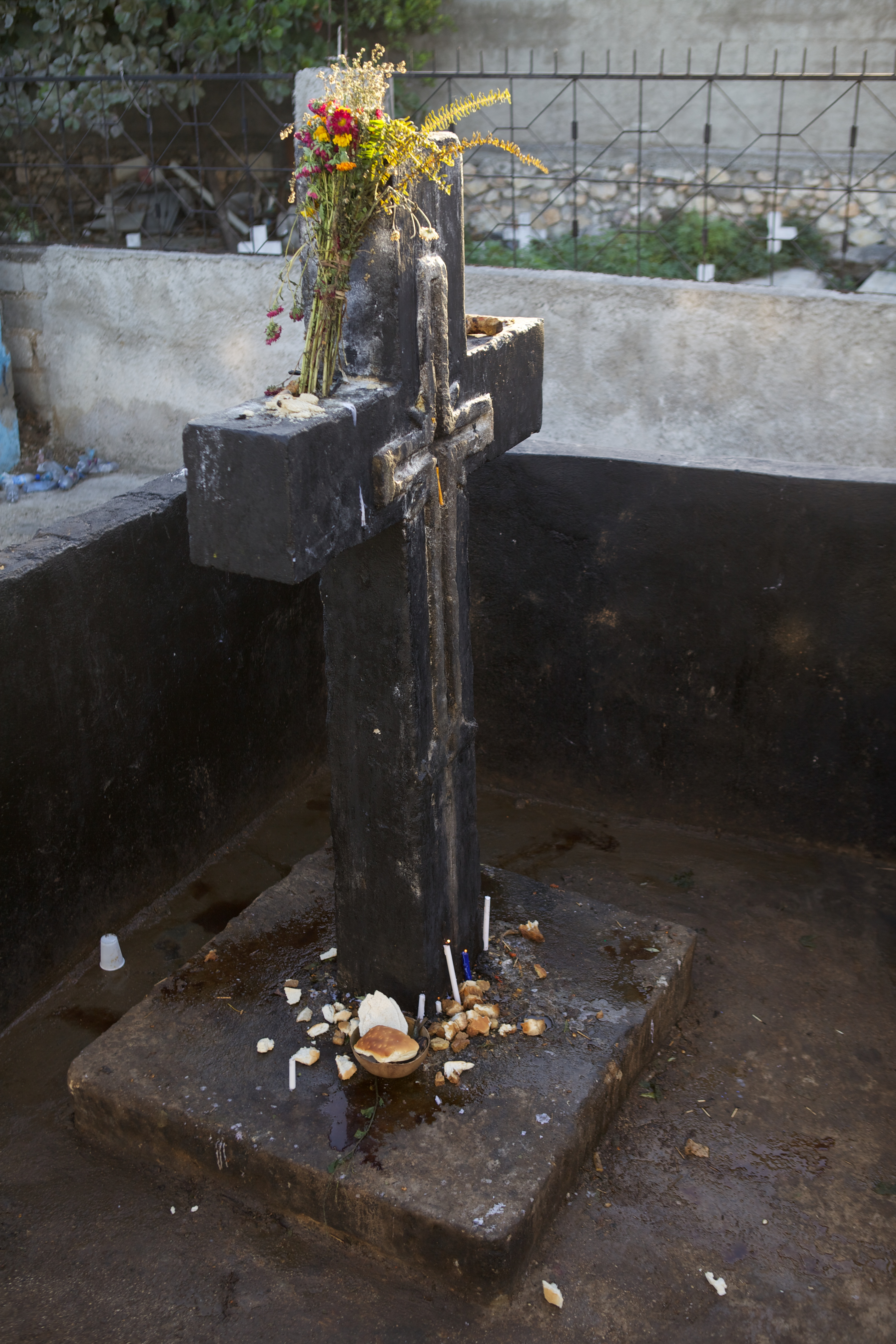 Baron Samedi's cross at the cemetery in Port-au-Prince, Haiti. The Baron is the head of the Guede family of Loa in the voodou(voodoo) religion. The cross was destroyed in the 2010 earthquake but was reconstructed prior to the Guede religious holidays.